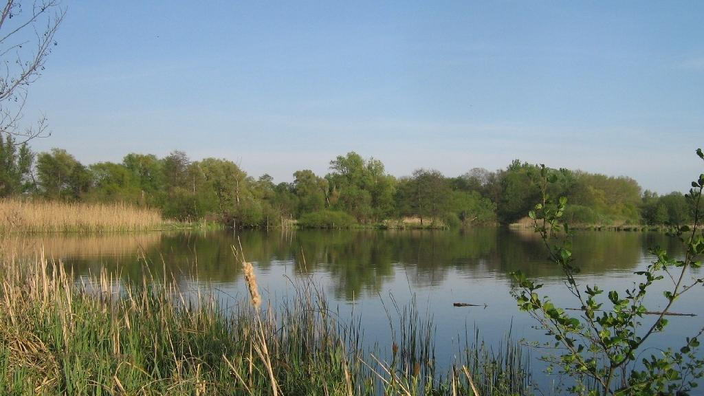 A Bay of the river Havel near Deetz (Groß Kreutz) (Brandenburg, Germany)